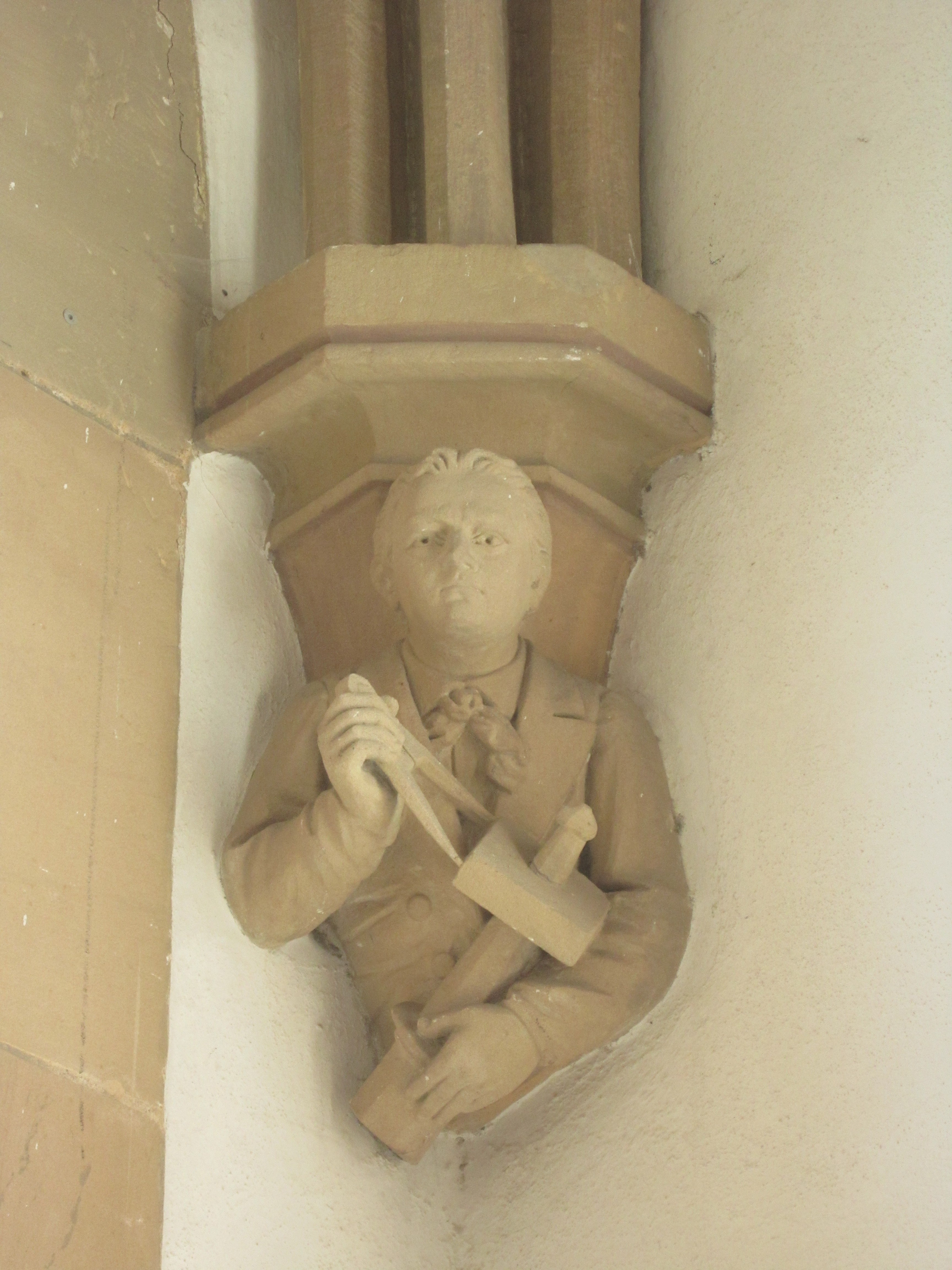 Bust of Valentin Weidner at the entrance of the Herz-Jesu Stadtpfarrkirche in the German spa town of Bad Kissingen in Lower Franconia (Bavaria).